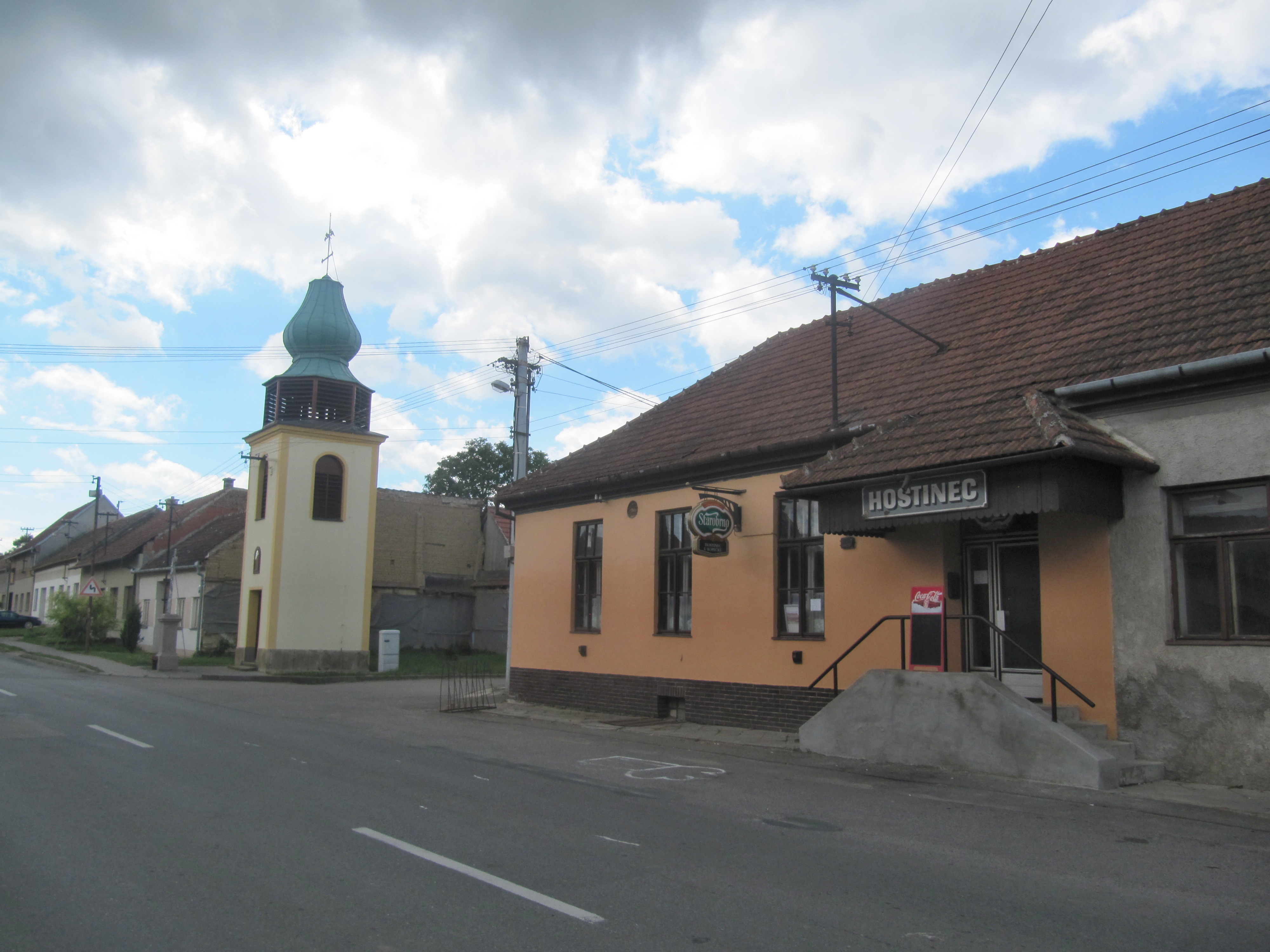 Bučovice, Vyškov District, Czech Republic, part Kloboučky.